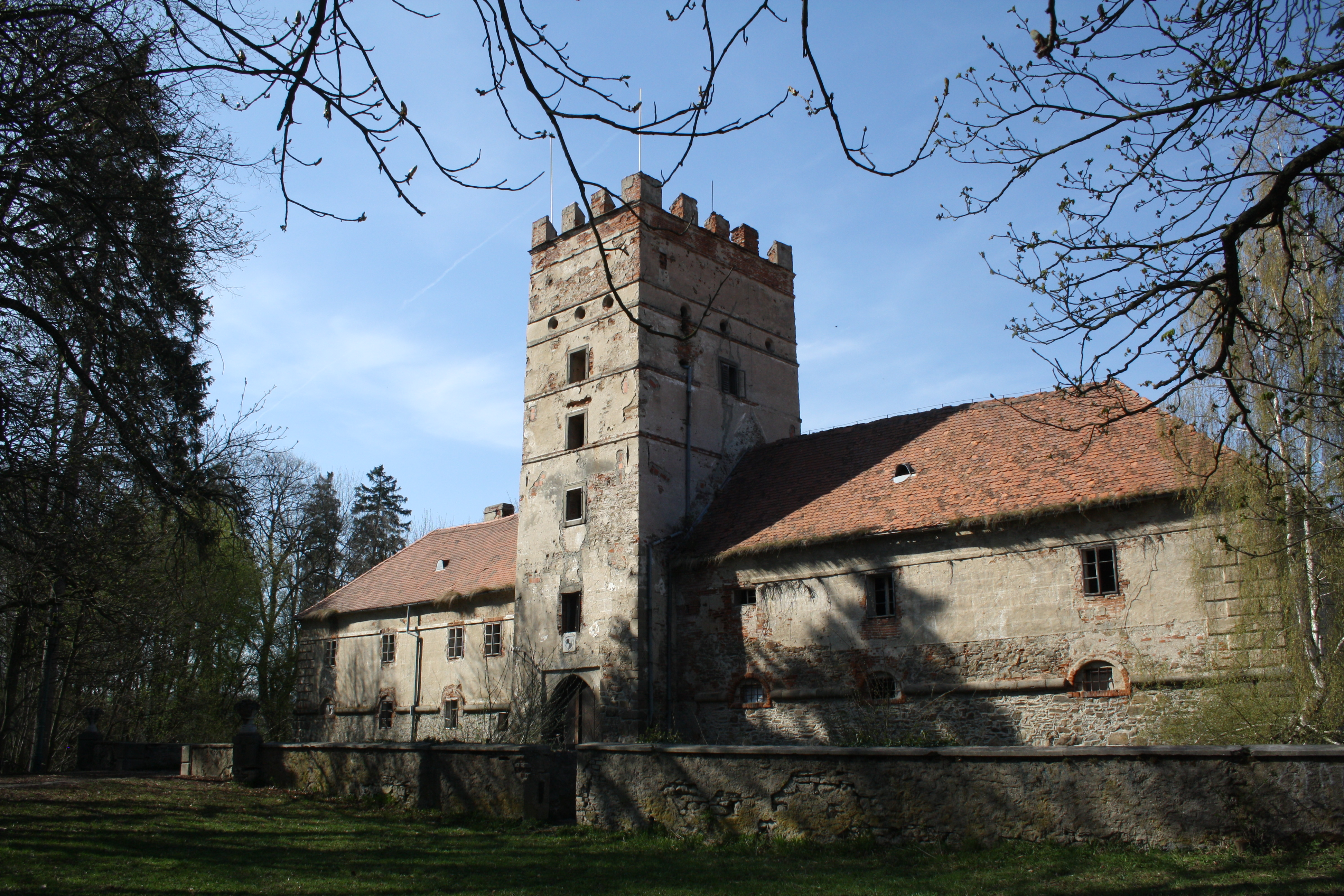 Brtnice castle tower and entrance building.